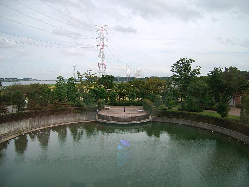 Visitor center (Tega marsh)